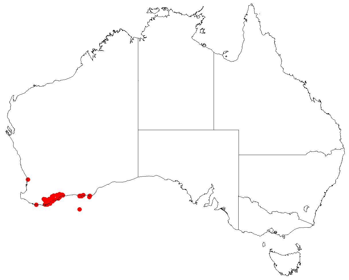 Allocasuarina trichodon Occurrence data from AVH